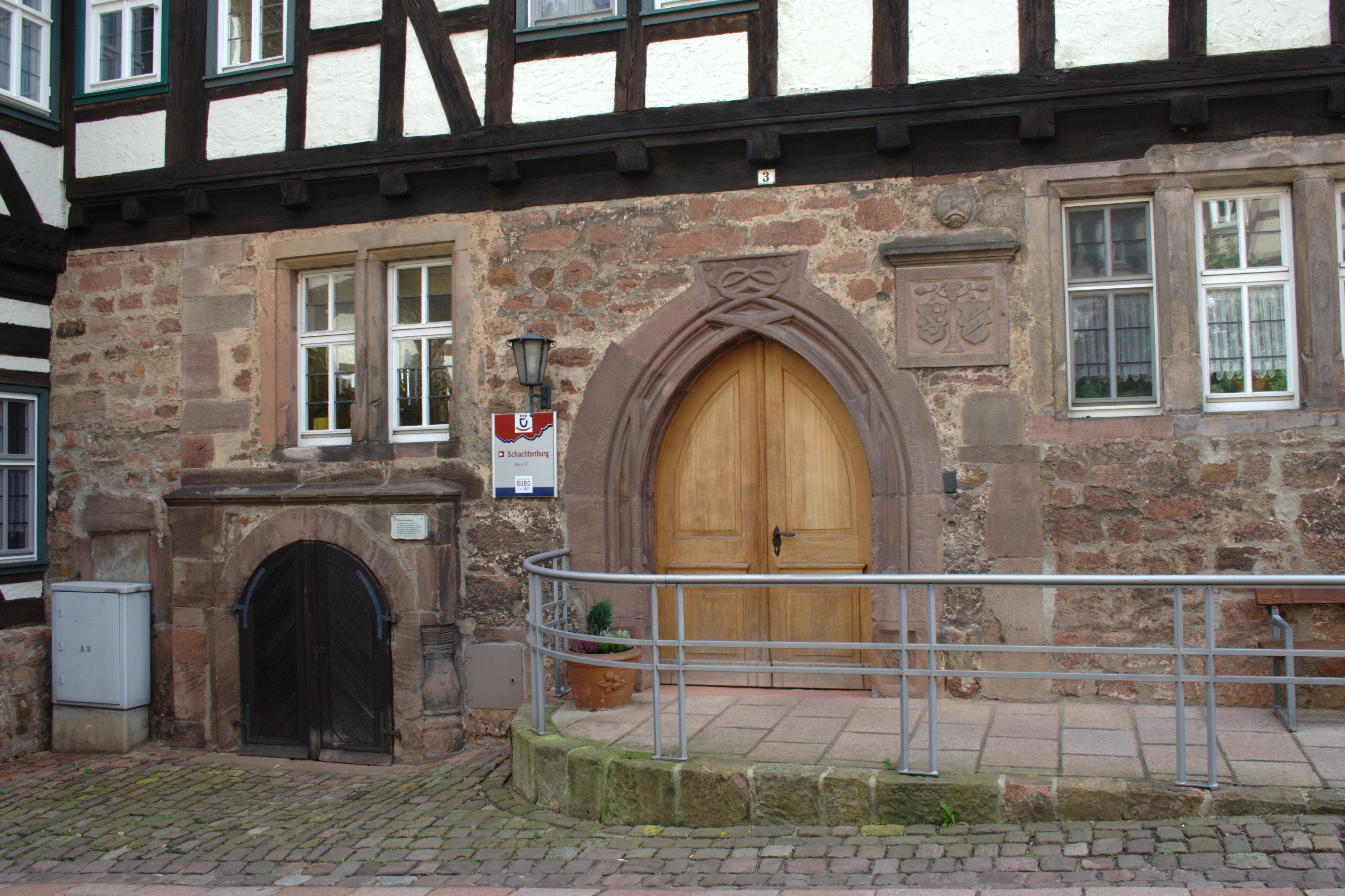 Schachtenburg entrance in Schlitz / Hesse / Germany